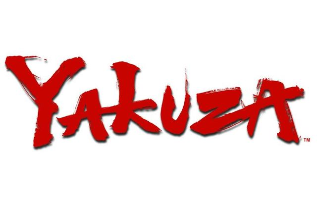 hungary Yakuza store